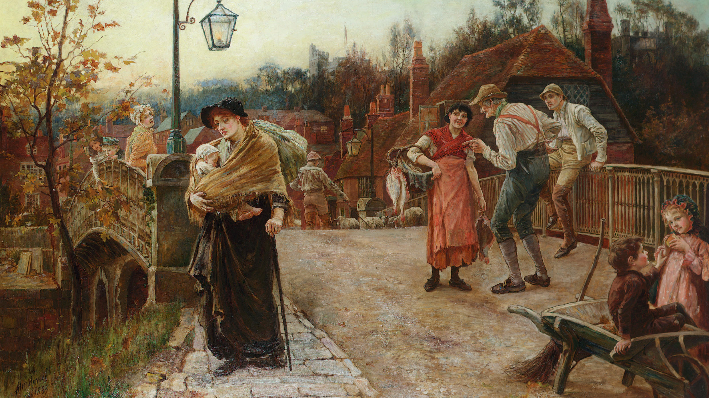 Belle of the village. Signed and dated Alice Havers/1883. Oil on canvas. 83 x 141 cm.